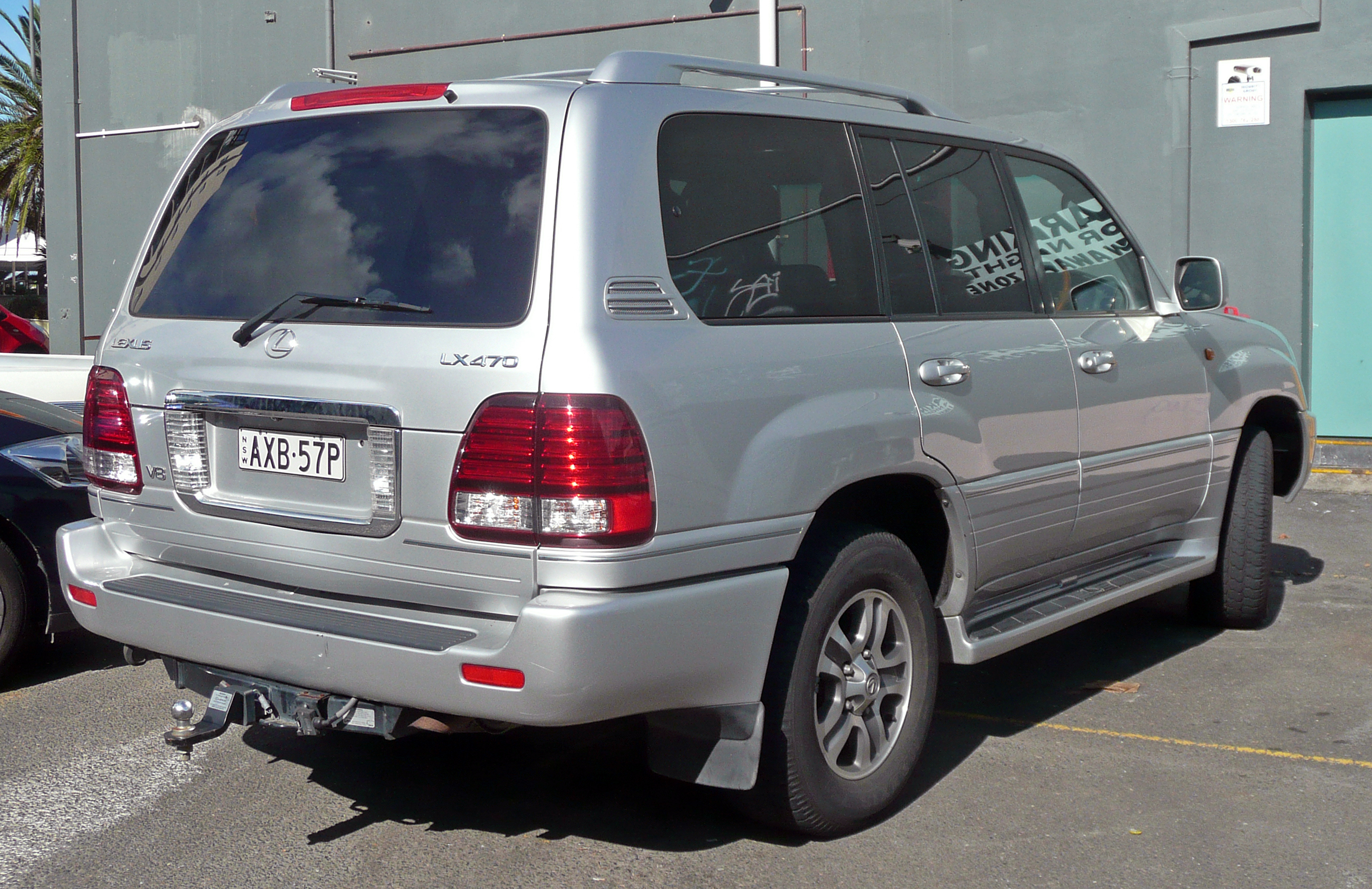 2005 Lexus LX 470 (UZJ100R MY06) wagon. Photographed in Cronulla, New South Wales, Australia.